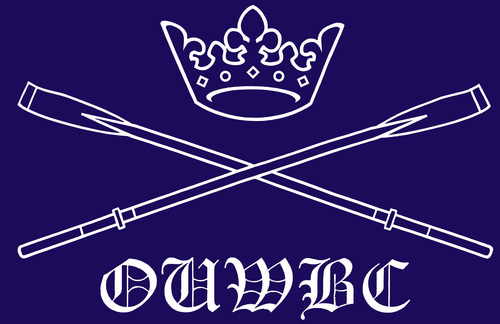 The crest of OUWBC.